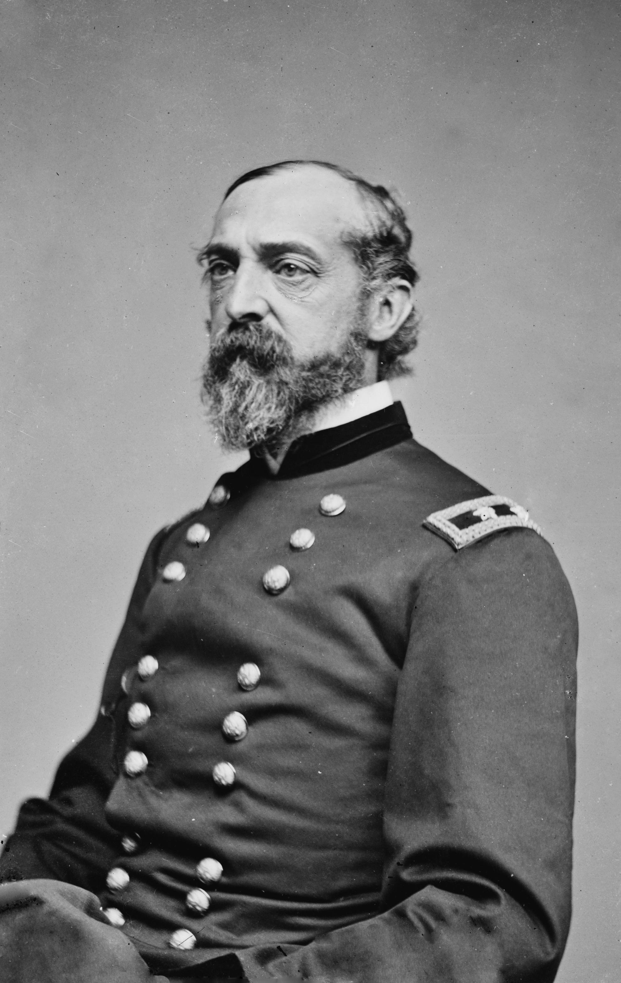 George Meade. Library of Congress description: "Gen. George G. Meade"